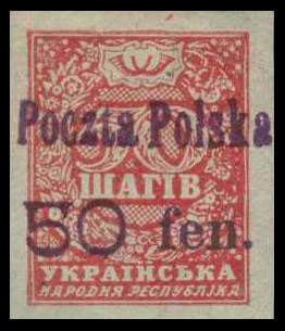 Stamp of the Polish civil authorities of Volhynia, 1919